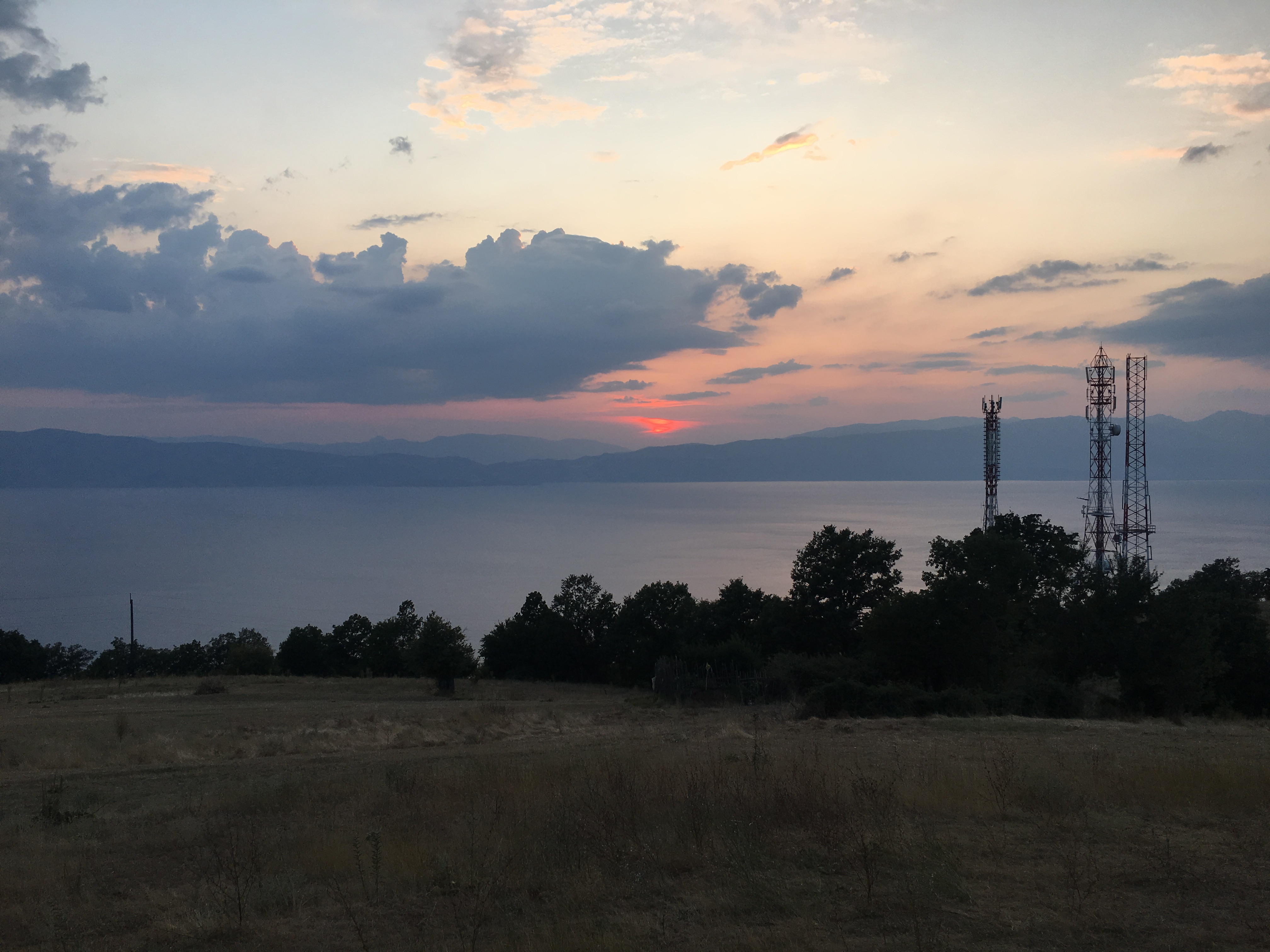 A view of the Lake Ohrid from the village of Gorno Konjsko